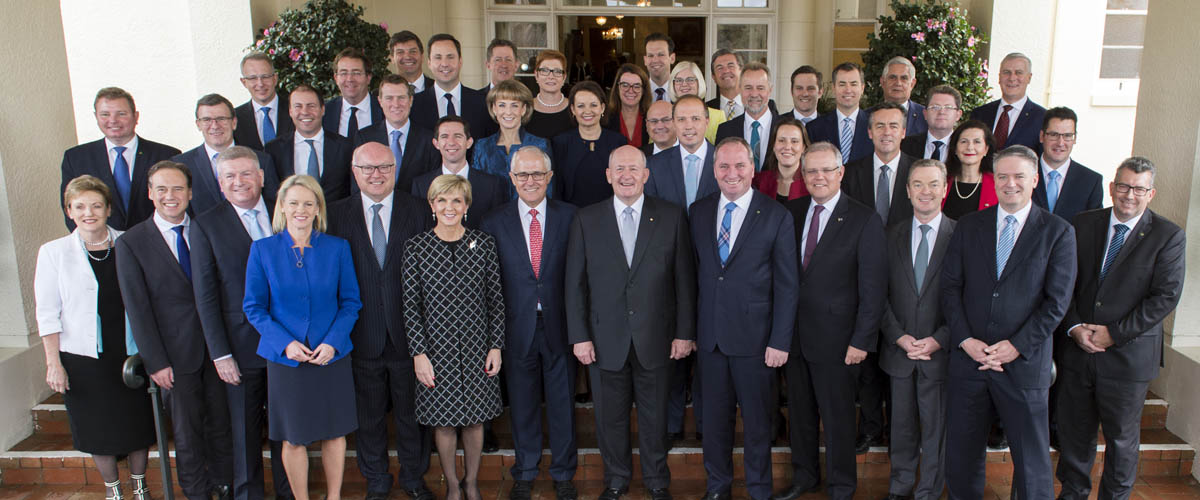 Sir Peter Cosgrove, Governor-General of Australia, at Government House, Canberra with newly sworn in Ministers and Parliamentary Secretaries of the Second Turnbull Ministry, following the 2016 Australian federal election.